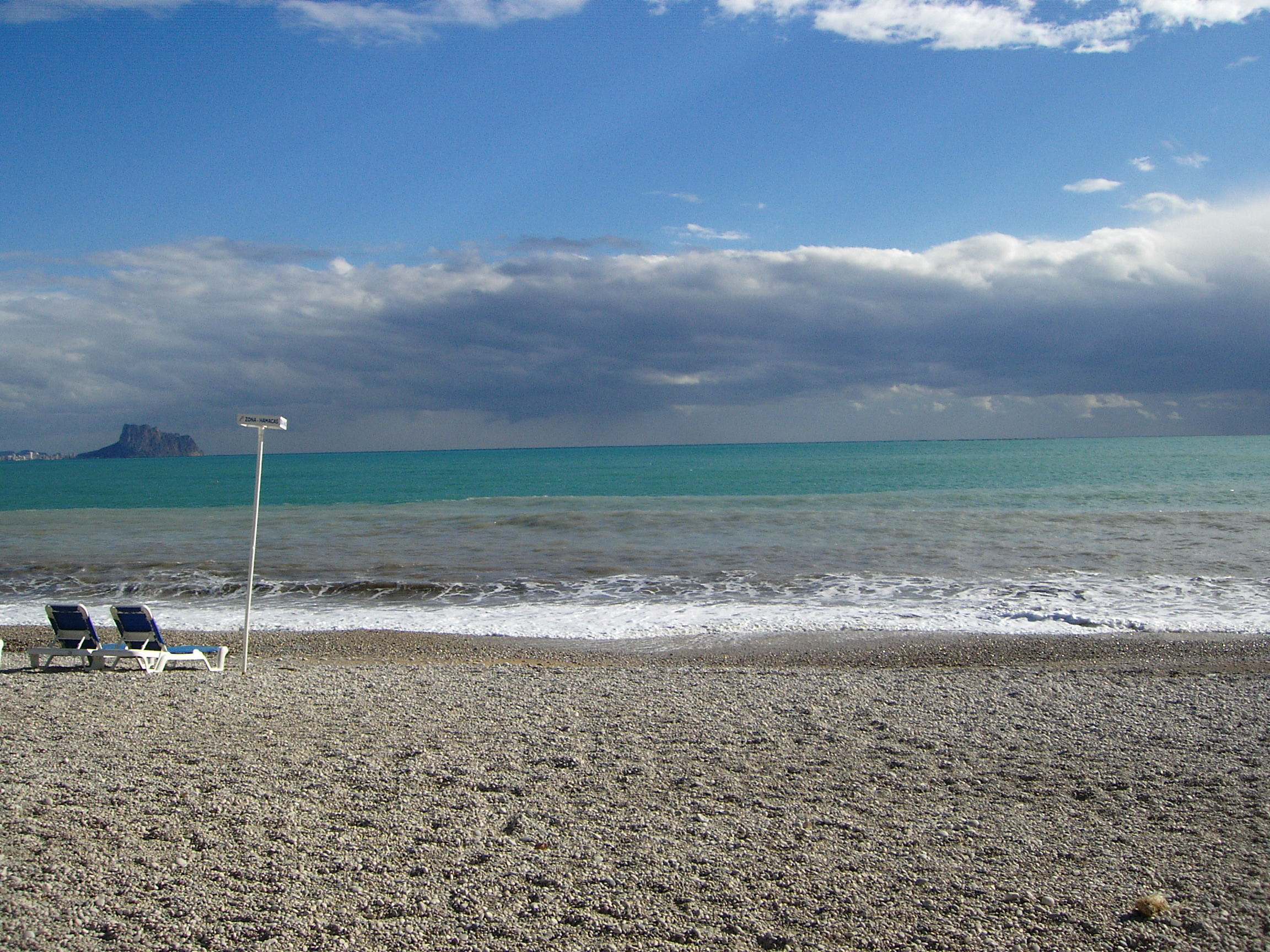 The Playa del Racó del Albir in L'Alfàs del Pi